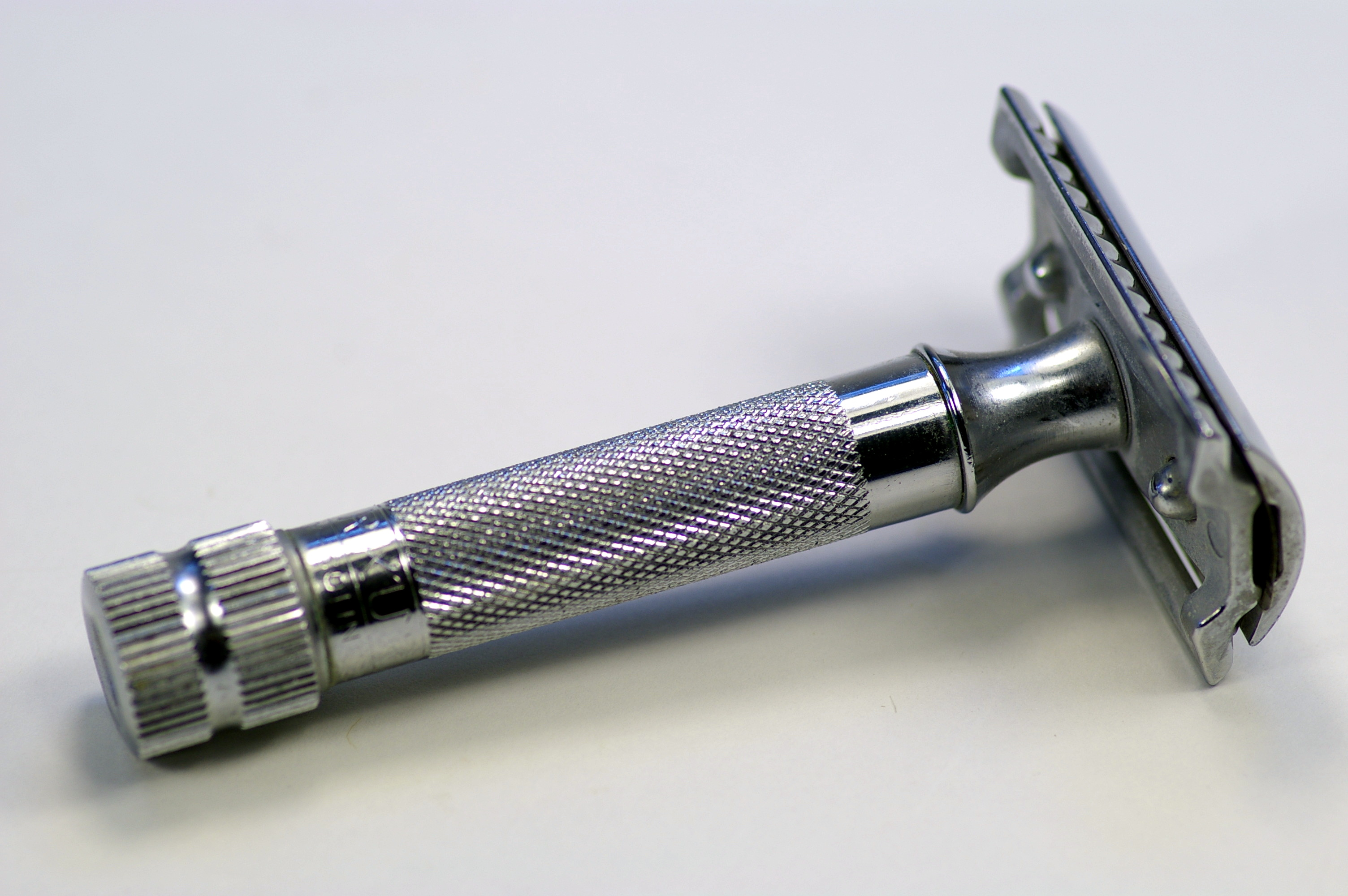 A heavy duty style safety razor. This is a safety razor of the brand Merkur, model 34c, aka. "Heavy Duty" or "HD.